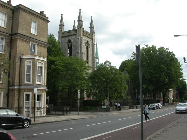 View south along part of Queenstown Road, Battersea, London SW8. The tower is that of the Ethiopian Orthodox Ewahedo Church of St Mary of Debre Tsion ( which was built in 1869 as the Church of England parish church of St Philip ( The gardens around the church form St Philip Square, Battersea.